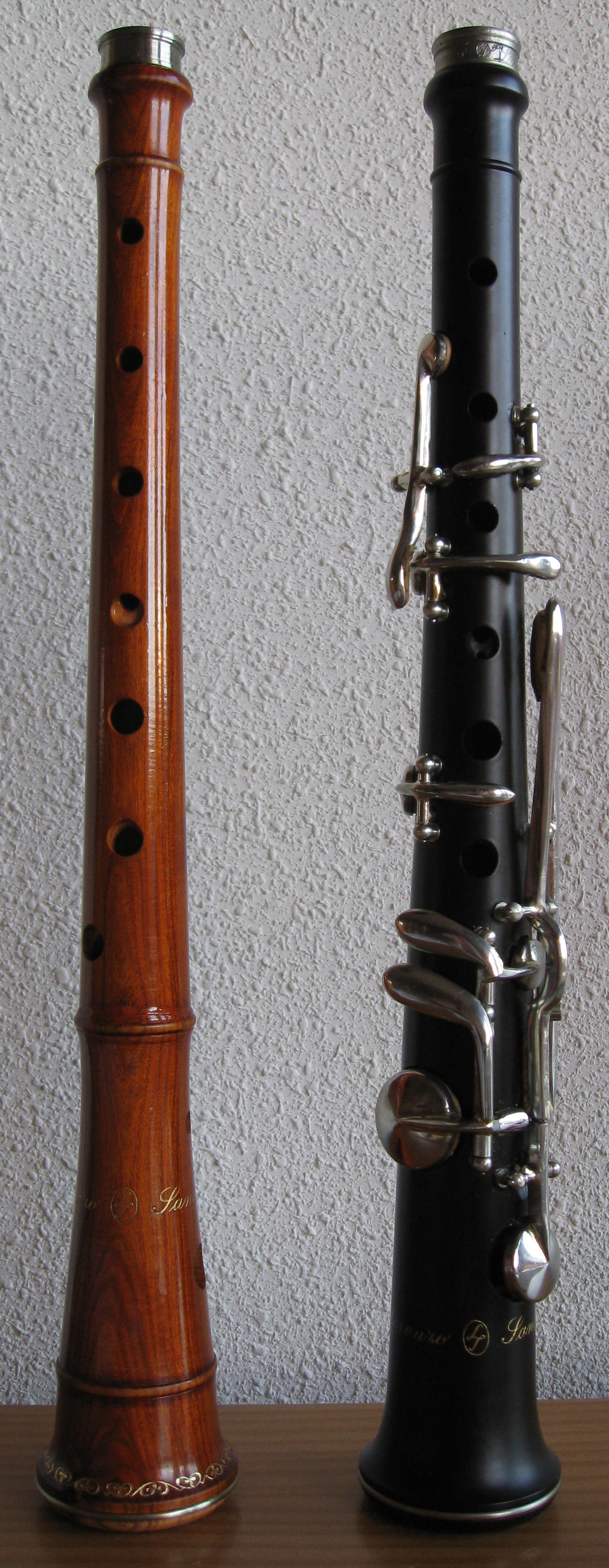 Castilla's dulzainas: diatonic (left, without keys) and chromatic (right, with keys)